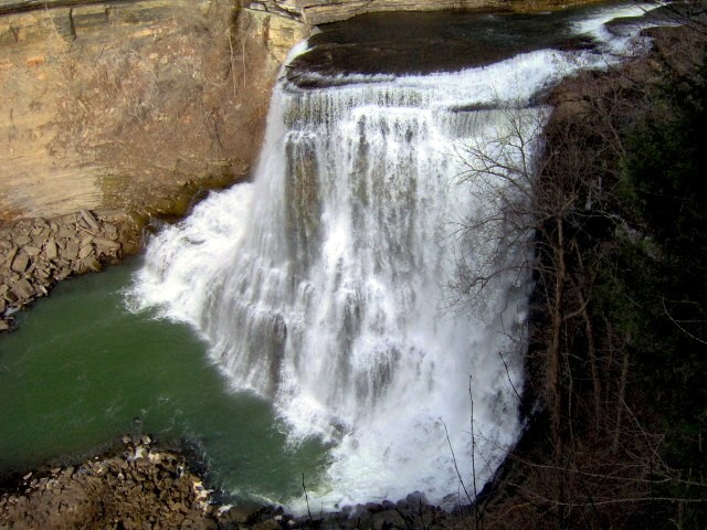 Burgess Falls at Burgess Falls State Park near Cookeville, Tennessee, located in the Southeastern United States. This view is from the Big Falls Overlook, an observation deck near the top of the bluffs on the south bank of the river.